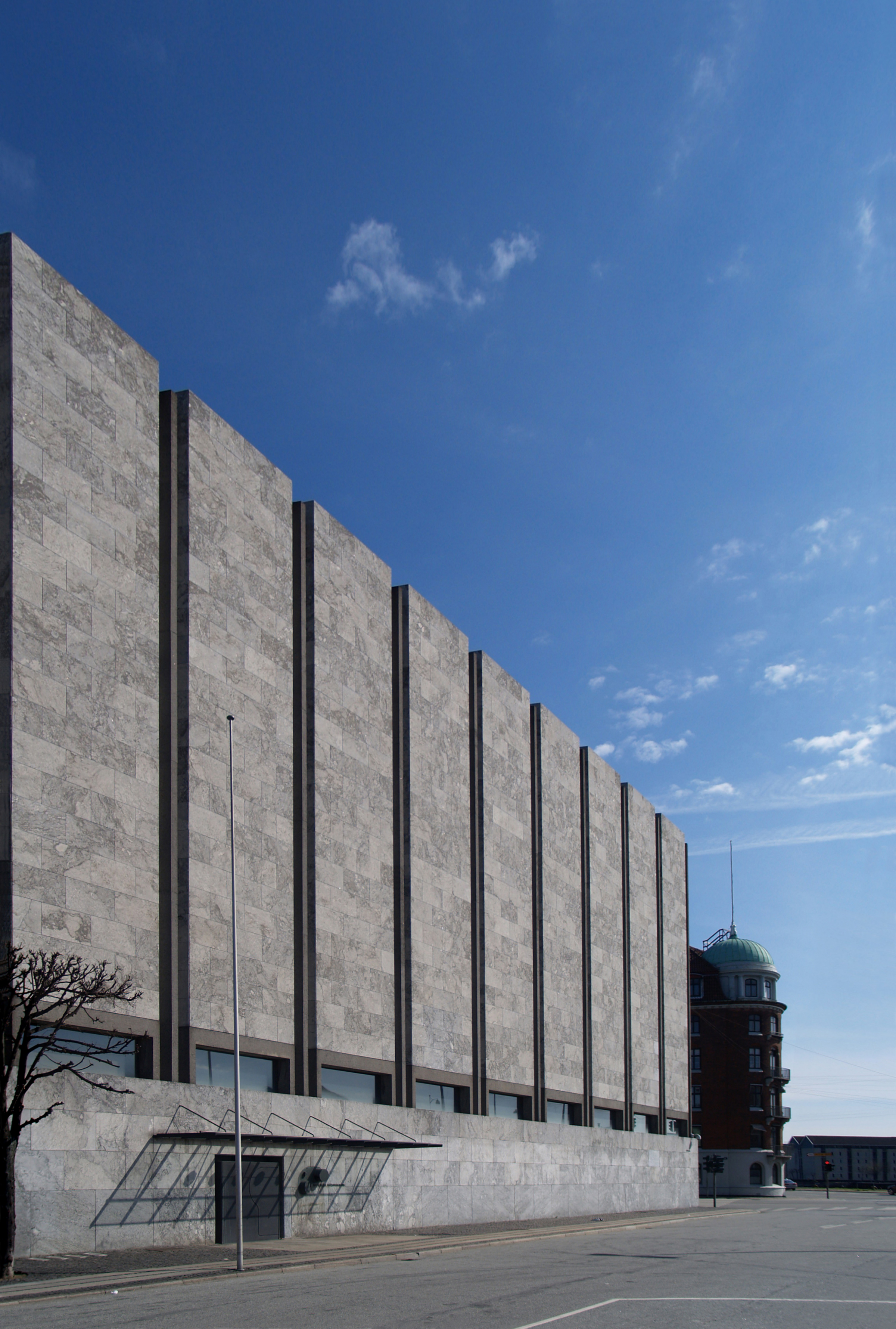 national bank of denmark, copenhagen, 1961-1978. architect: arne jacobsen, 1901-1971. final stages completed by architects dissing weitling. more jacobsen.